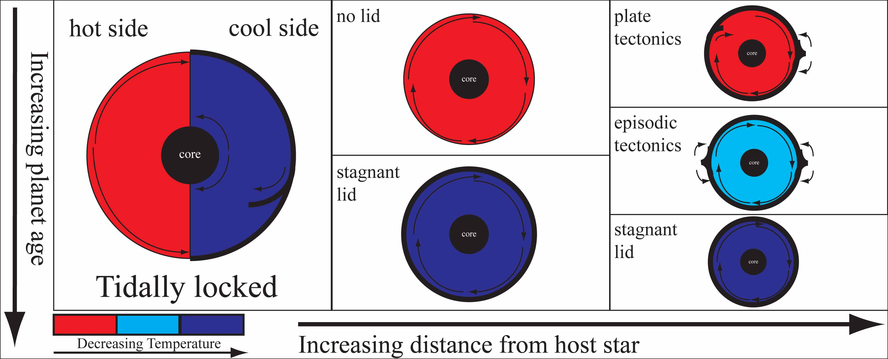 This image is a conceptual plot of the effect of distance from a host star vs. planetary age on terrestrial exoplanet geodynamics.